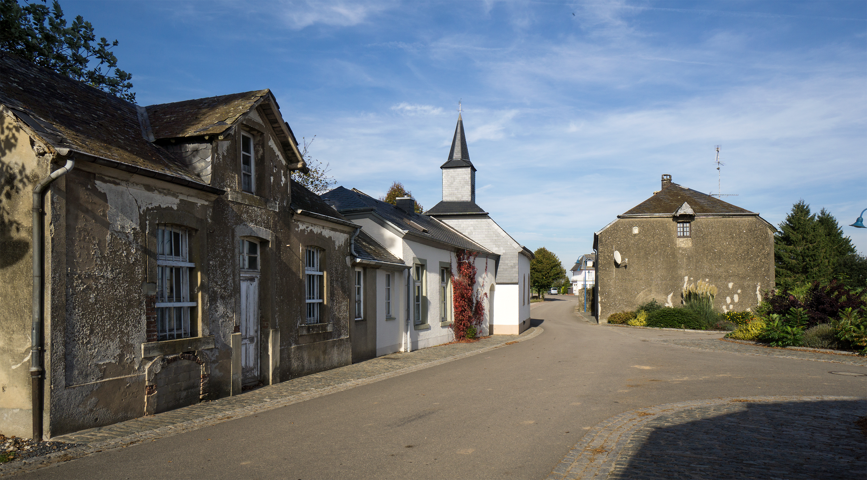 The main road through Nachtmanderscheid